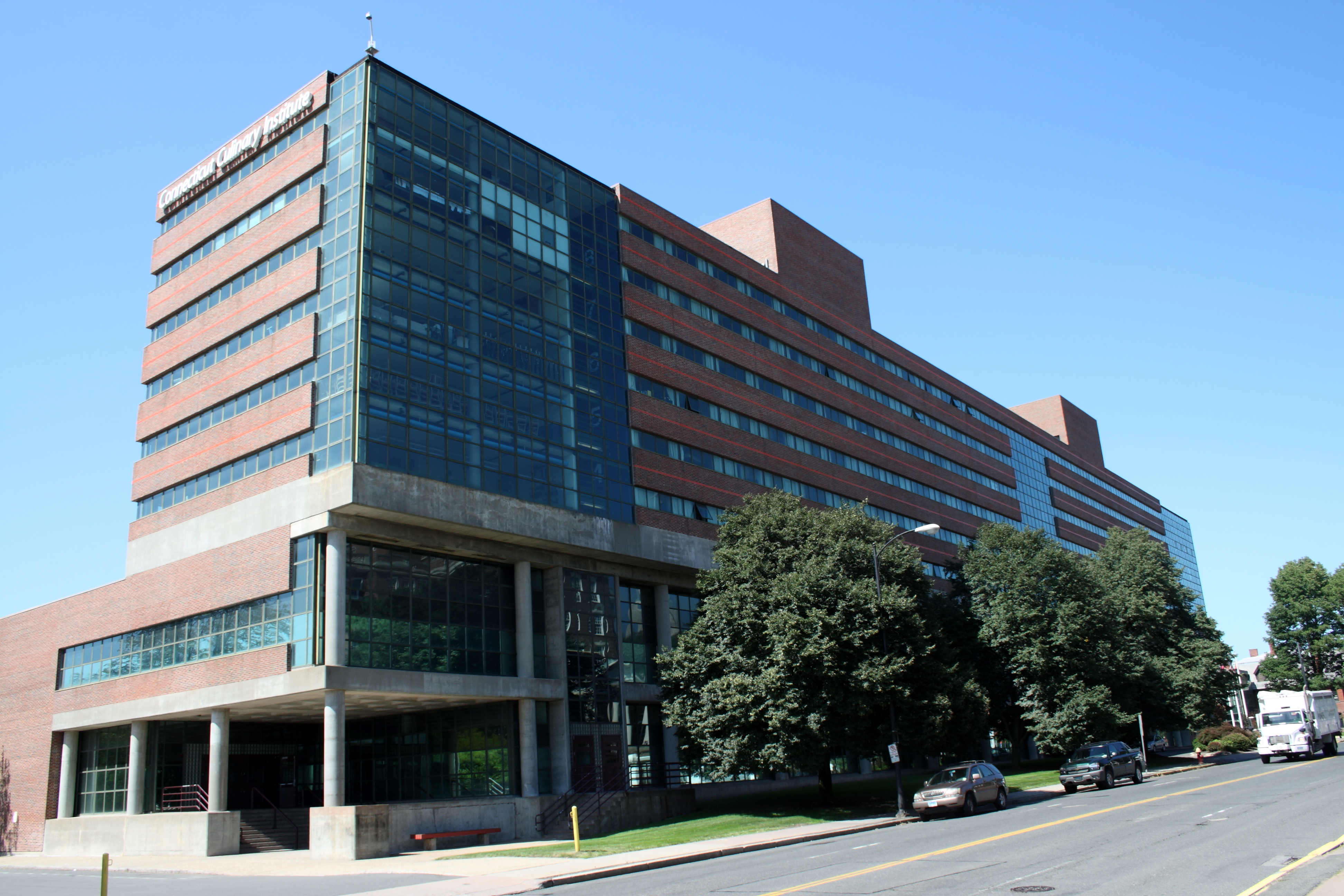 The Connecticut Culinary Institute at the Building at 83-85 Sigourney Street, a Registered Historic Place in Hartford, Connecticut